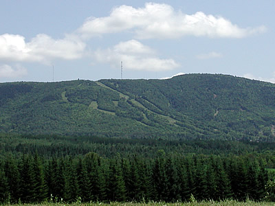 took myself